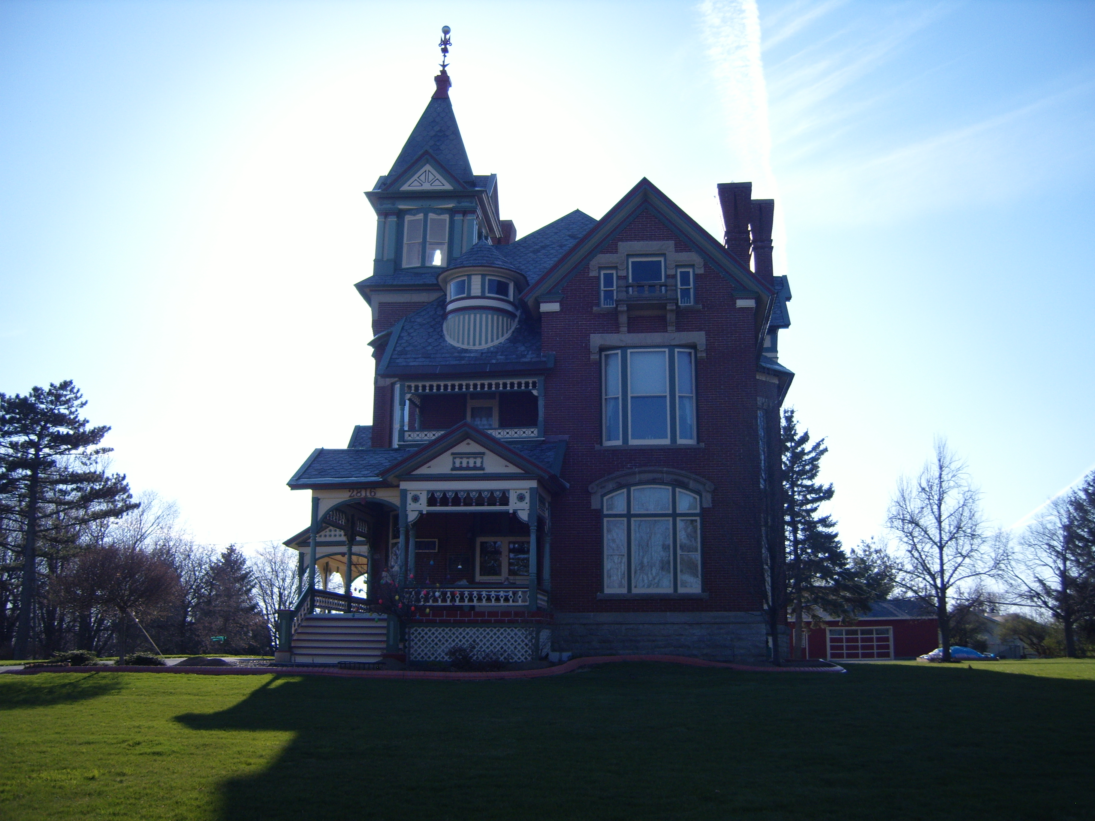 Front of the Charles H. Bigelow House, located at 2816 N. Main Street in Findlay, Ohio, United States. Built in 1888, the Queen Anne house is listed on the National Register of Historic Places.